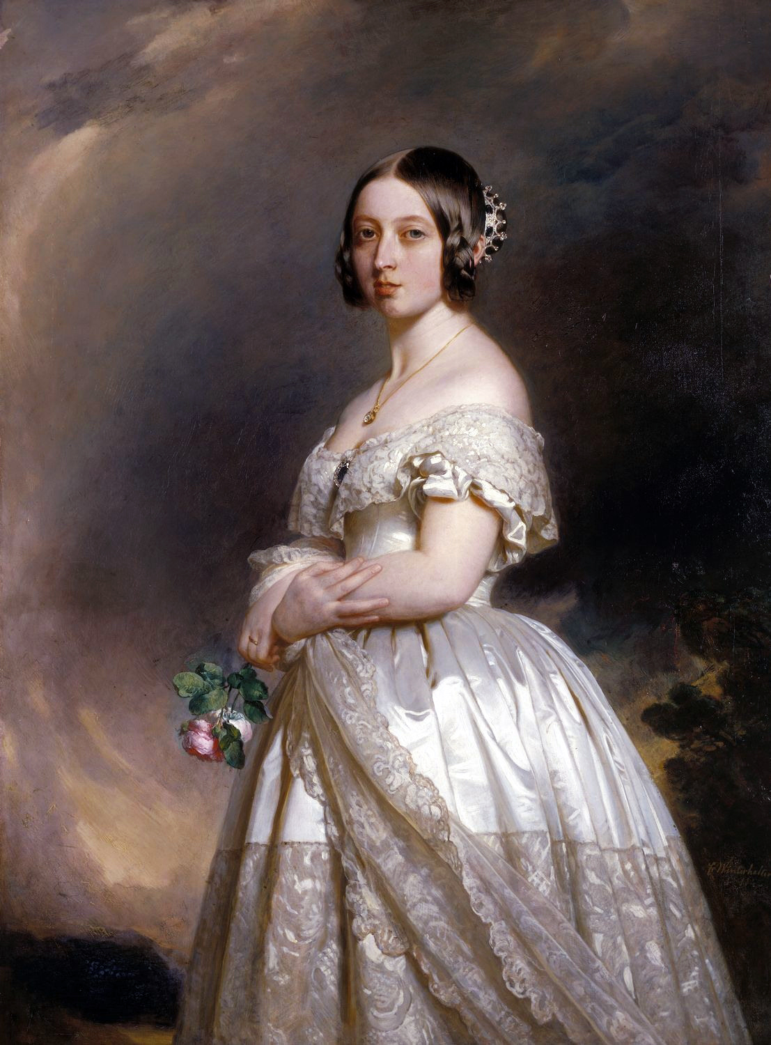 The Young Queen Victoria